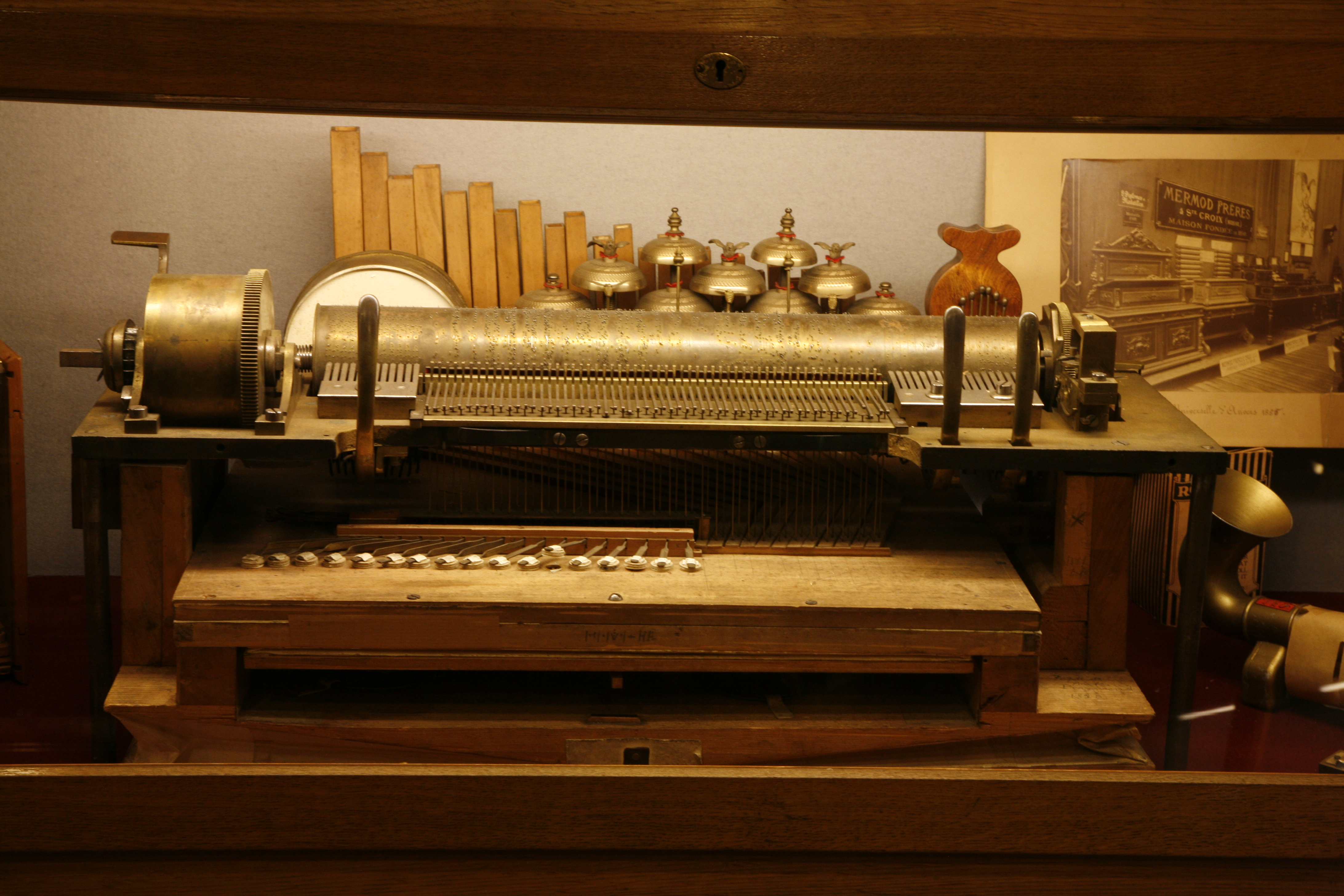 Musée Baud